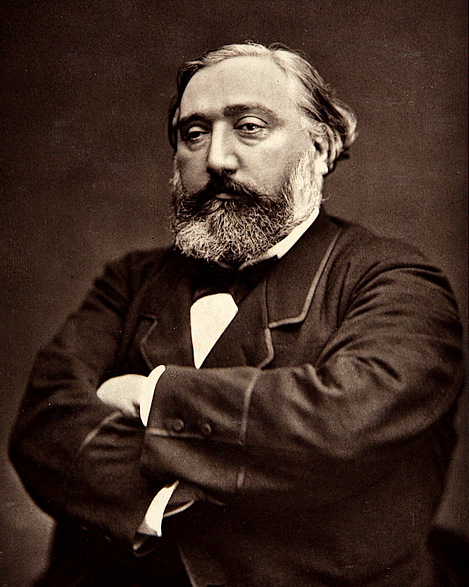 Leon Gambetta, Woodburytype on card